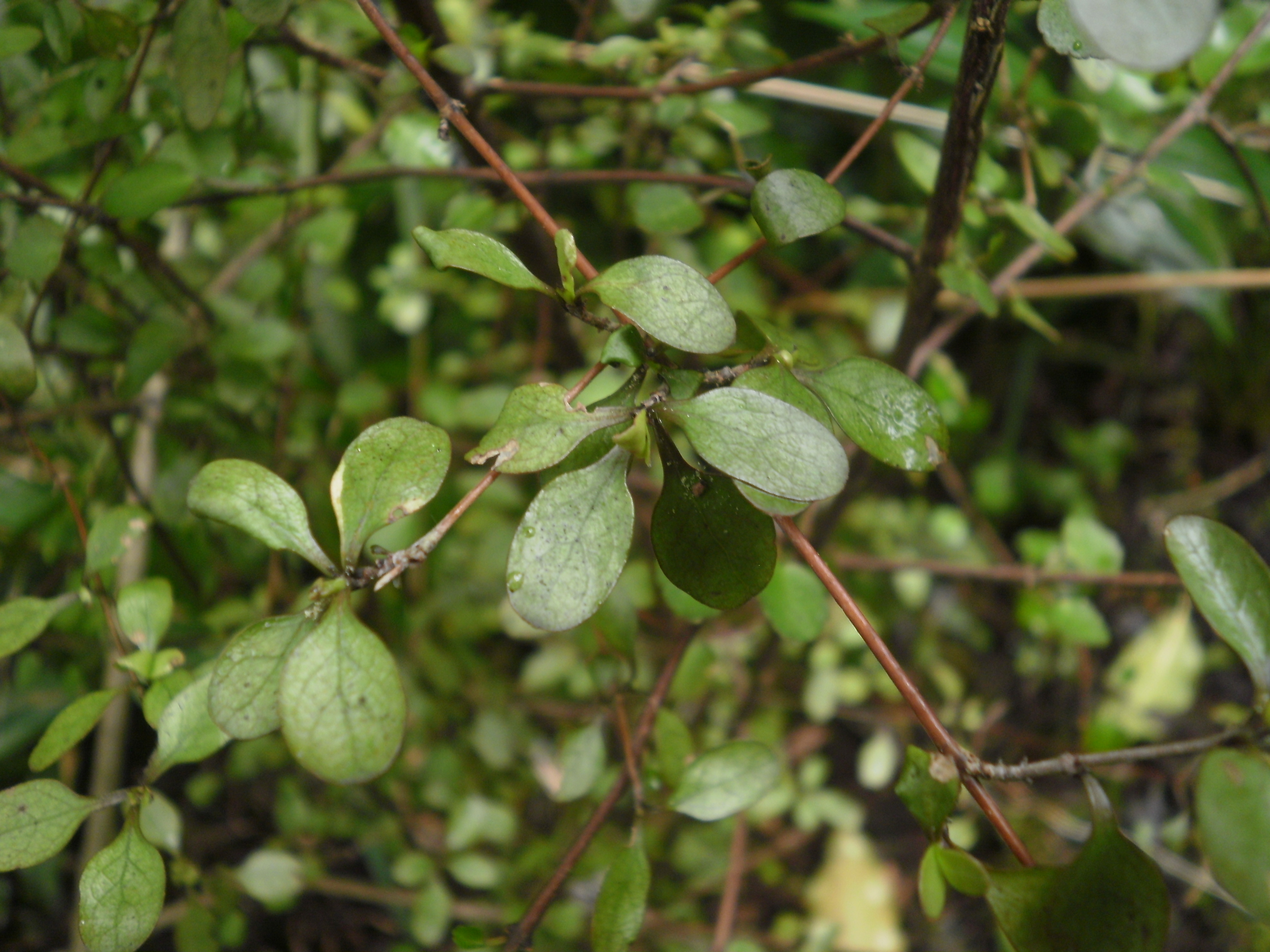 Coprosma rigida, on Hutt river bank, Moonshine, Upper Hutt, New Zealand.